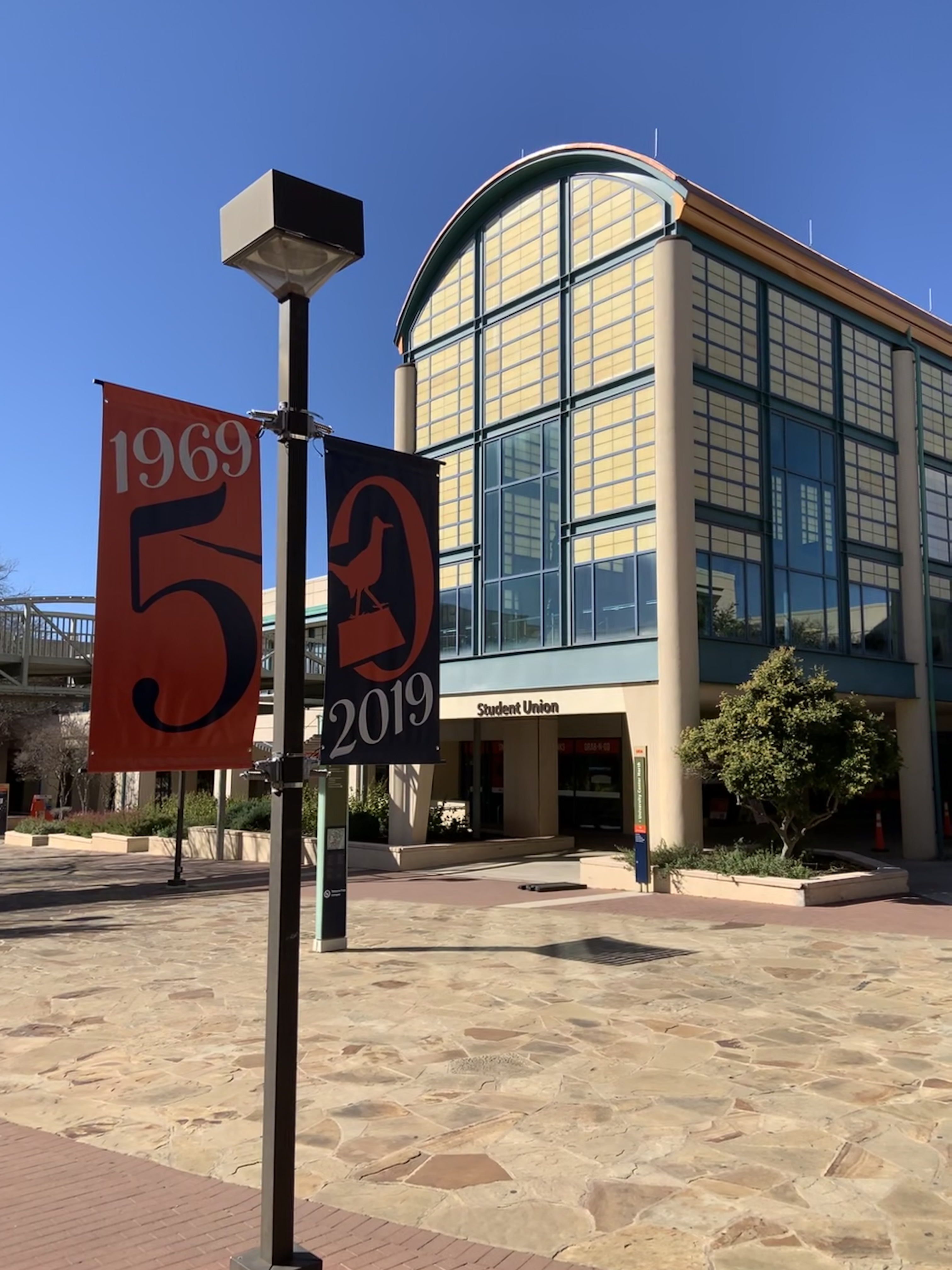 UTSA Student Union 2019